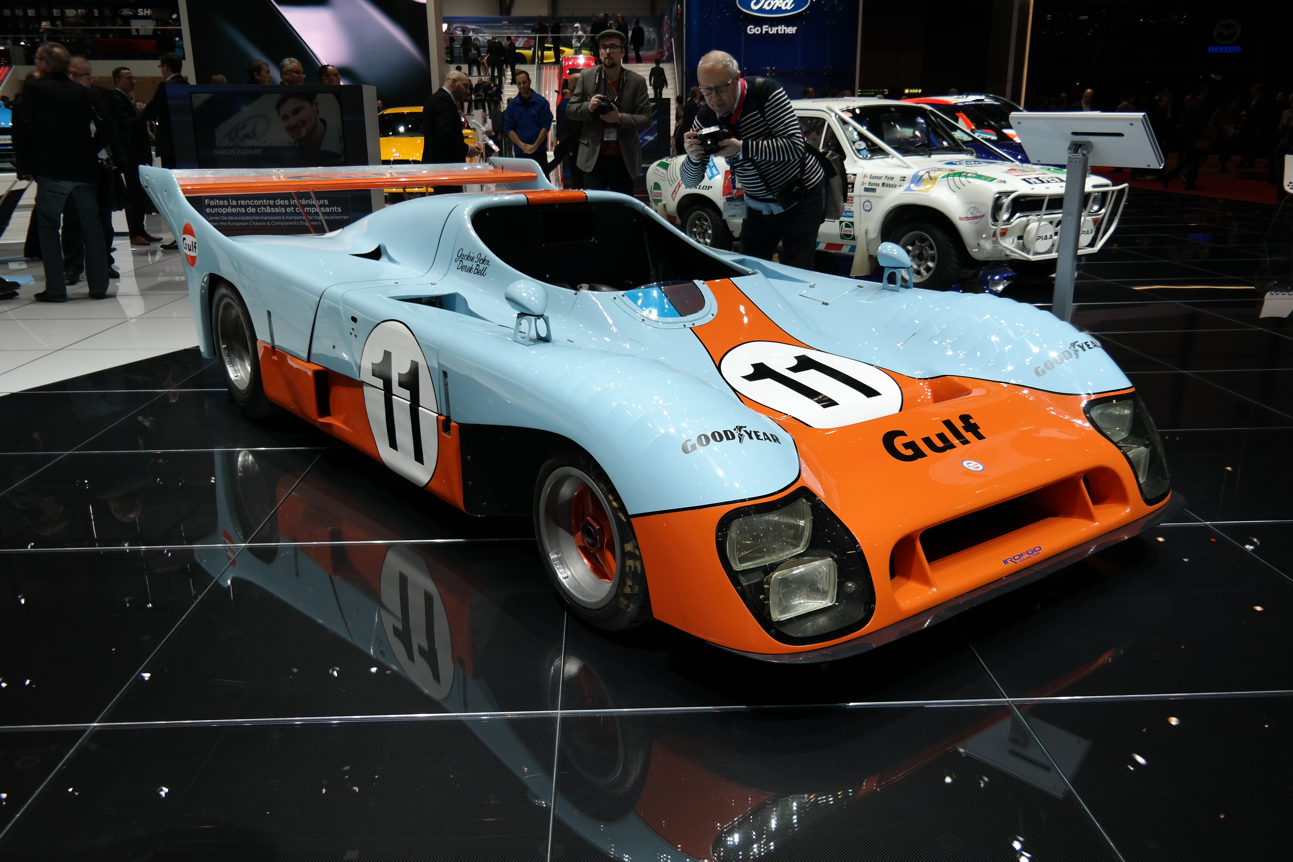 Geneva Motor Show 2017 (photo taken on the first press day)